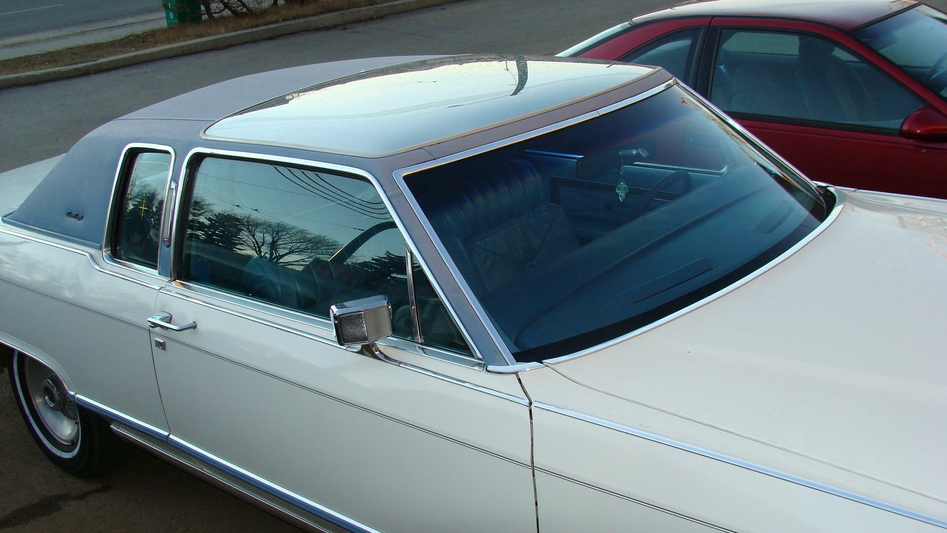 1978 Lincoln Continental Town Coupe w/ "Carriage Roof" or "Fixed Glass"